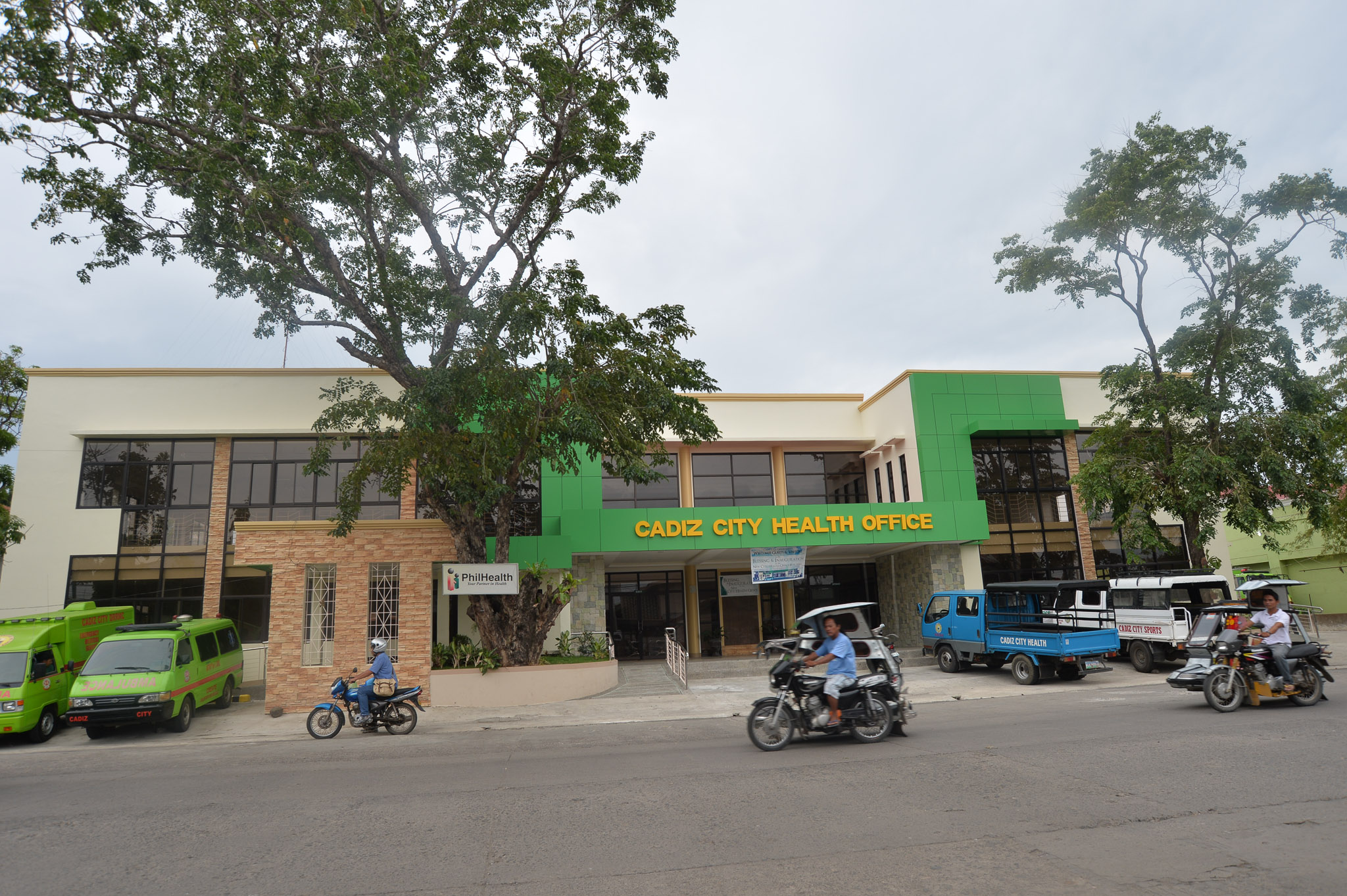 Cadiz City, Negros Occidental, Philippines